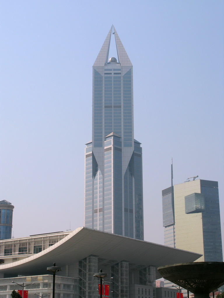 明天廣場 Tomorrow Square